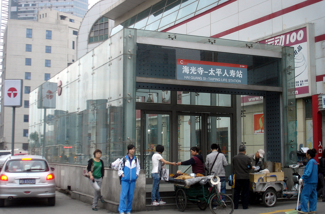 HAIGUANGSI ST. (LINE 1)